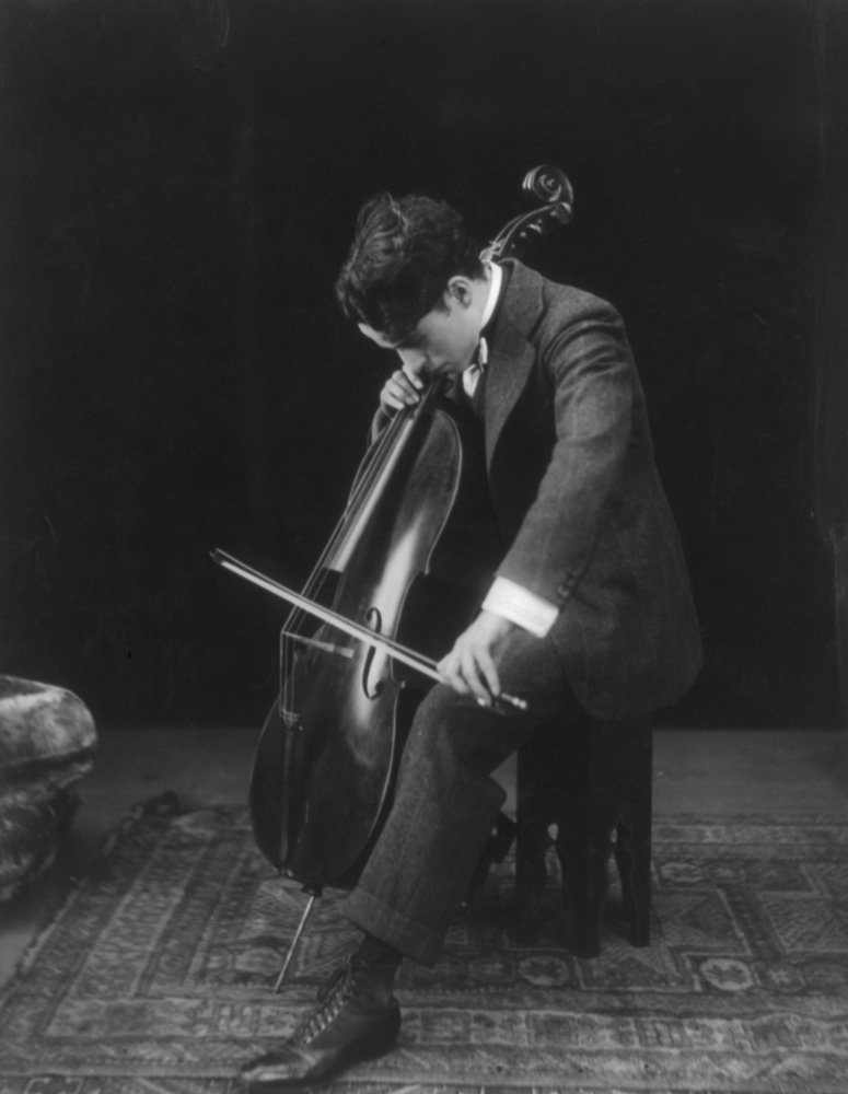 Charlie Chaplin (1889-1977) playing the cello.